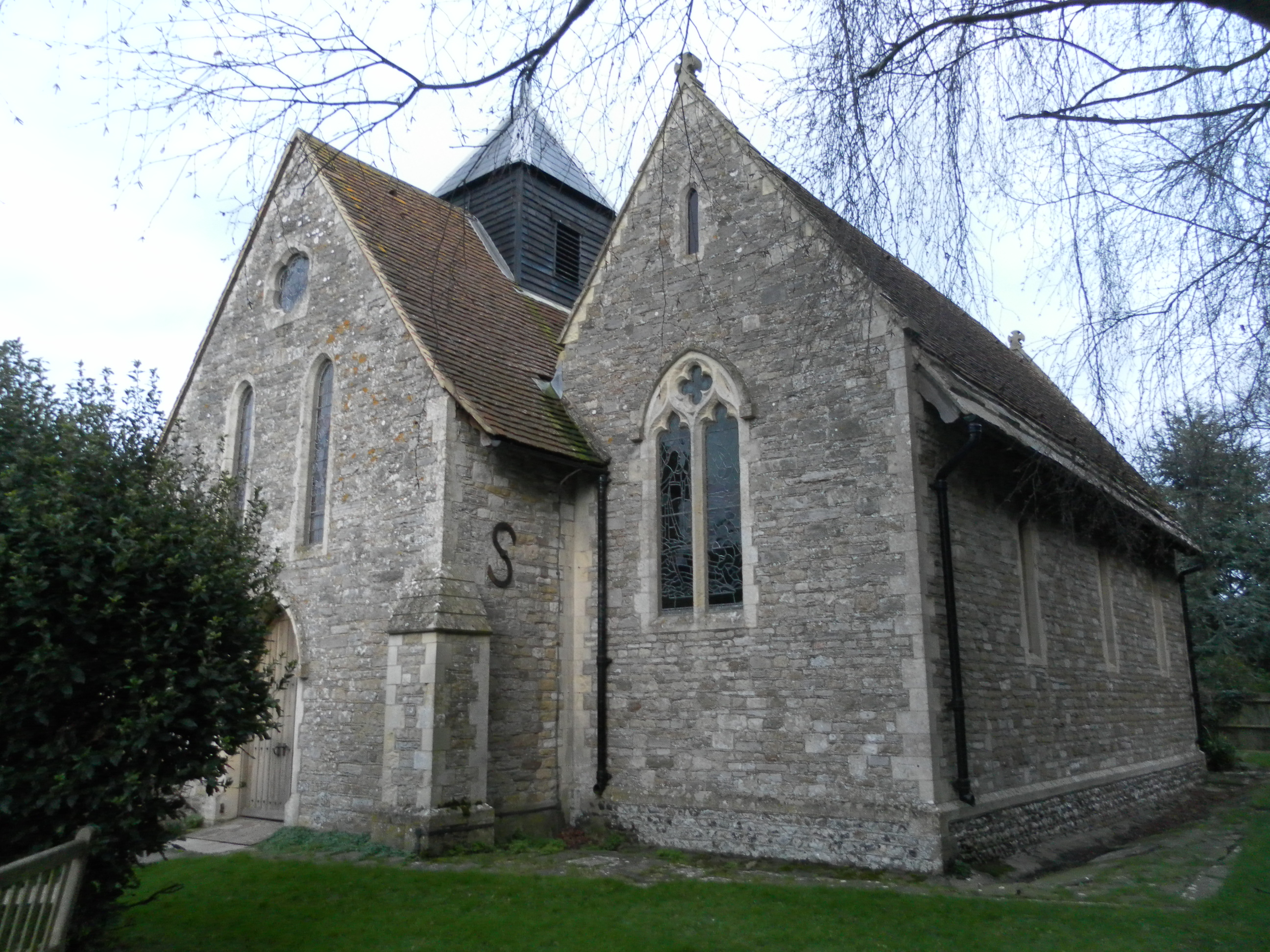 St Peter and St Mary's Church, Apuldram Lane, Fishbourne, District of Chichester, West Sussex, England. Listed at Grade II by English Heritage (NHLE Code 1026828)